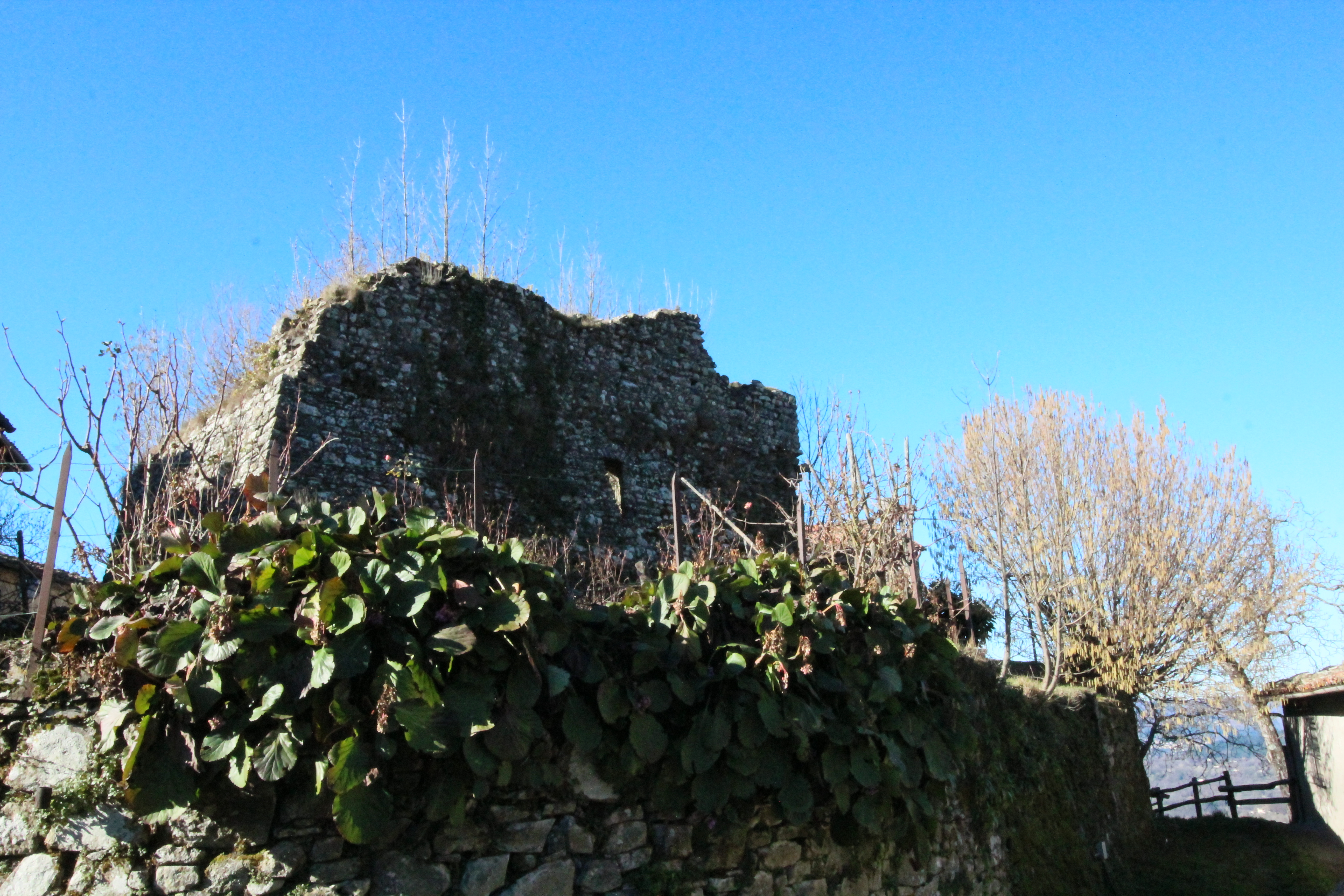 Defensive Tower in Sillico, hamlet of Pieve Fosciana, Garfagnana, Province of Lucca, Tuscany, Italy